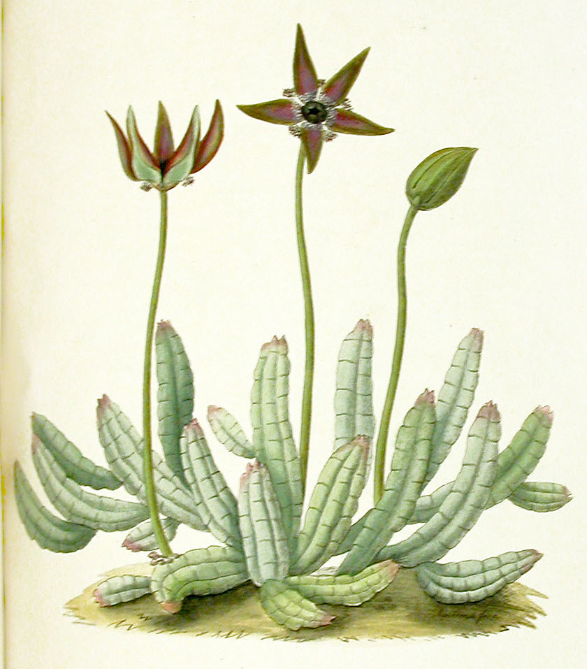 Stapelia pedunculata Masson is a synonym of Tridentea pedunculata (Masson) Leach